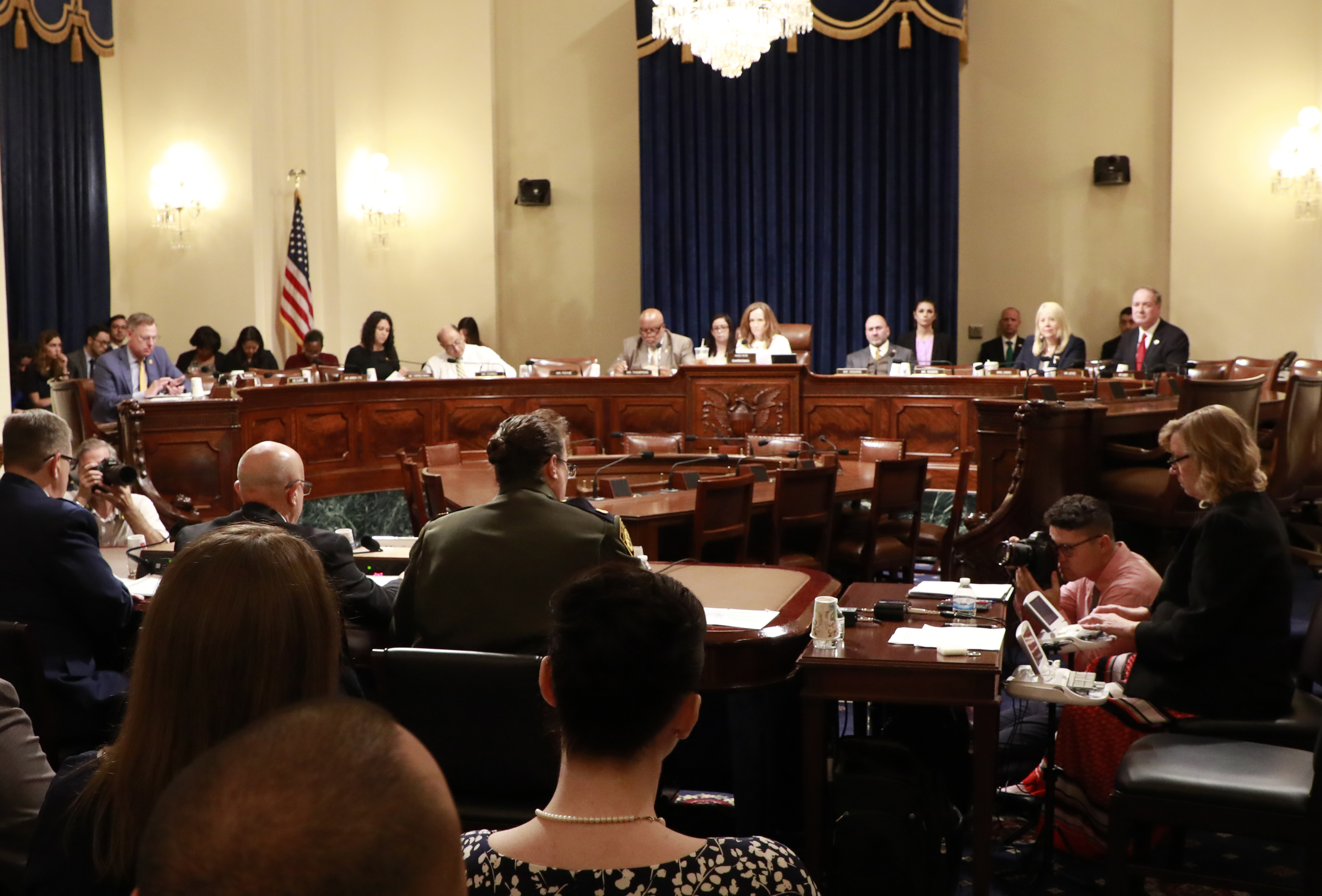 Carla Provost, Chief, U.S. Border Patrol, U.S. Customs and Border Protection, Department of Homeland Security, Mr. Robert Salesses, Deputy Assistant Secretary of Defense for Homeland Defense Integration and Defense Support of Civil Authorities, Office of the Under Secretary of Defense for Policy, Department of Defense and Major General Michael T. McGuire, Adjutant General for Arizona, Director, Arizona Department of Emergency and Military Affairs testify 20 June 2019 before the Congressional Subcommittee on Border Security, Facilitation, and Operations on Capitol Hill. The topic of the full committee hearing is: Examining the Department of Defense’s Deployment to the U.S.-Mexico Border. U.S. Customs and Border Protection photo by Jaime Rodriguez Sr.